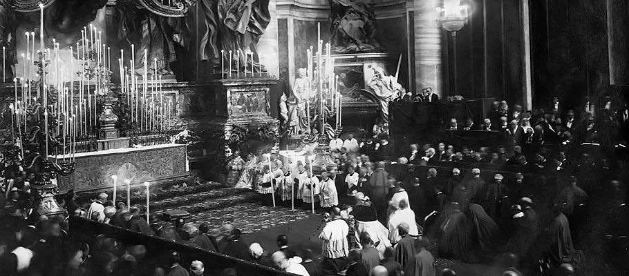 Canonization of Jeanne d'Arc 16 May 1920 by Pope Benedict XV in St.Peter’s